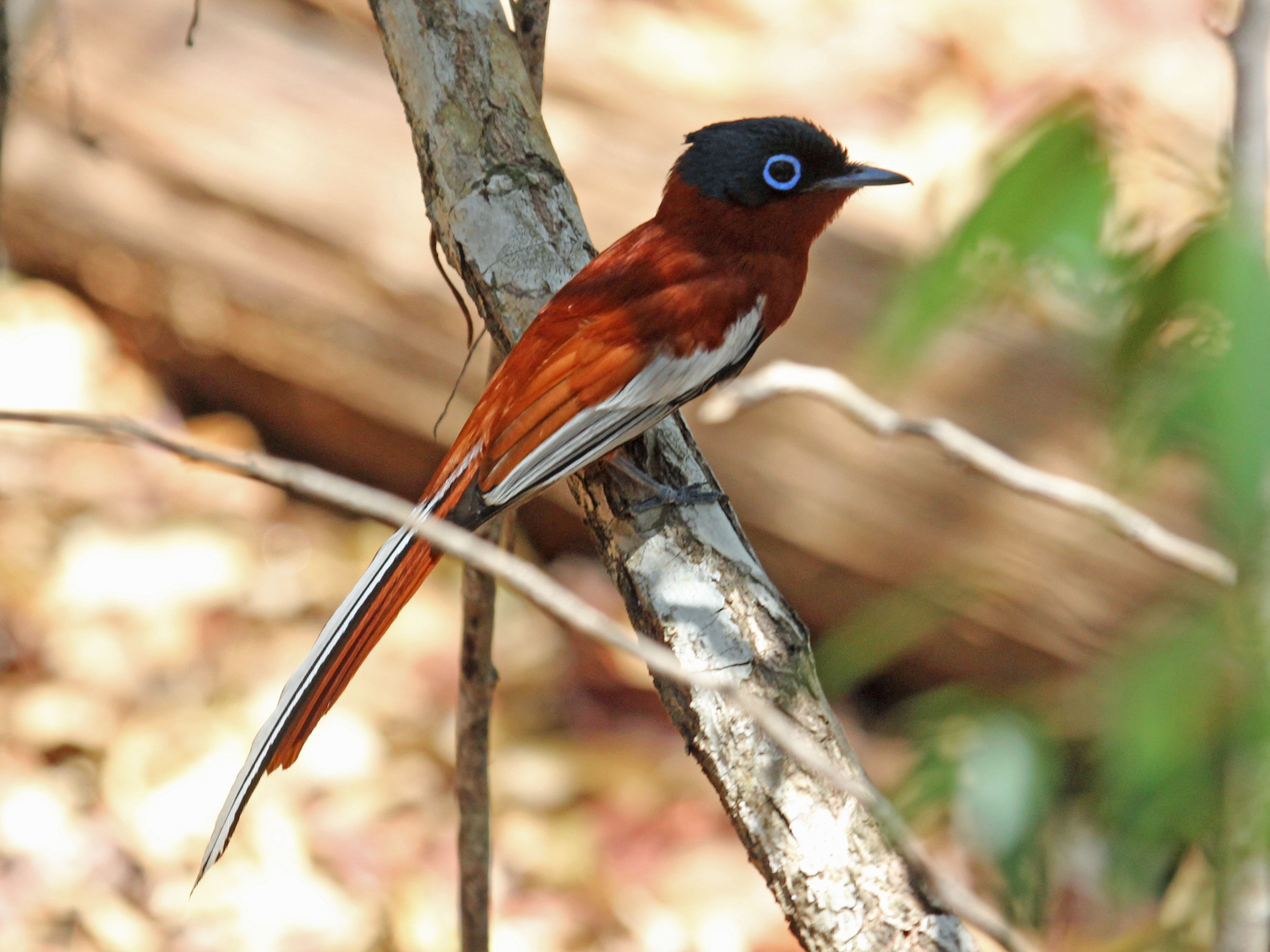 Madagascar Paradise-Flycatcher (Terpsiphone mutata) - Kirindy Forest, Madagascar